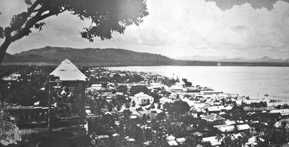 Panorama style image of Songkhla looking west from Khao Tangkuan, circa 1930.